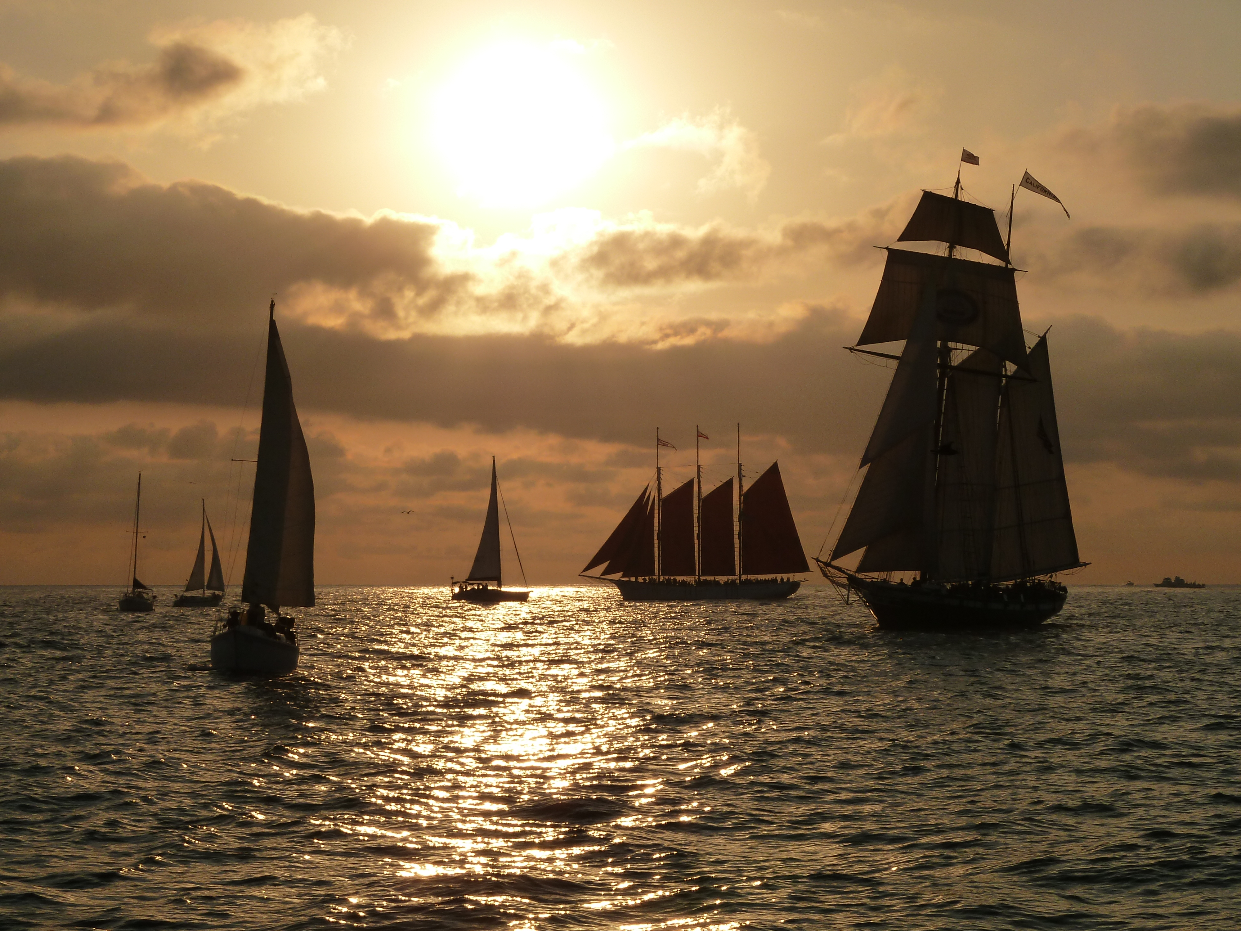 Silhouette of ships in the Toshiba Festival of Tall Ships in Dana Point, California. September 10, 2011.